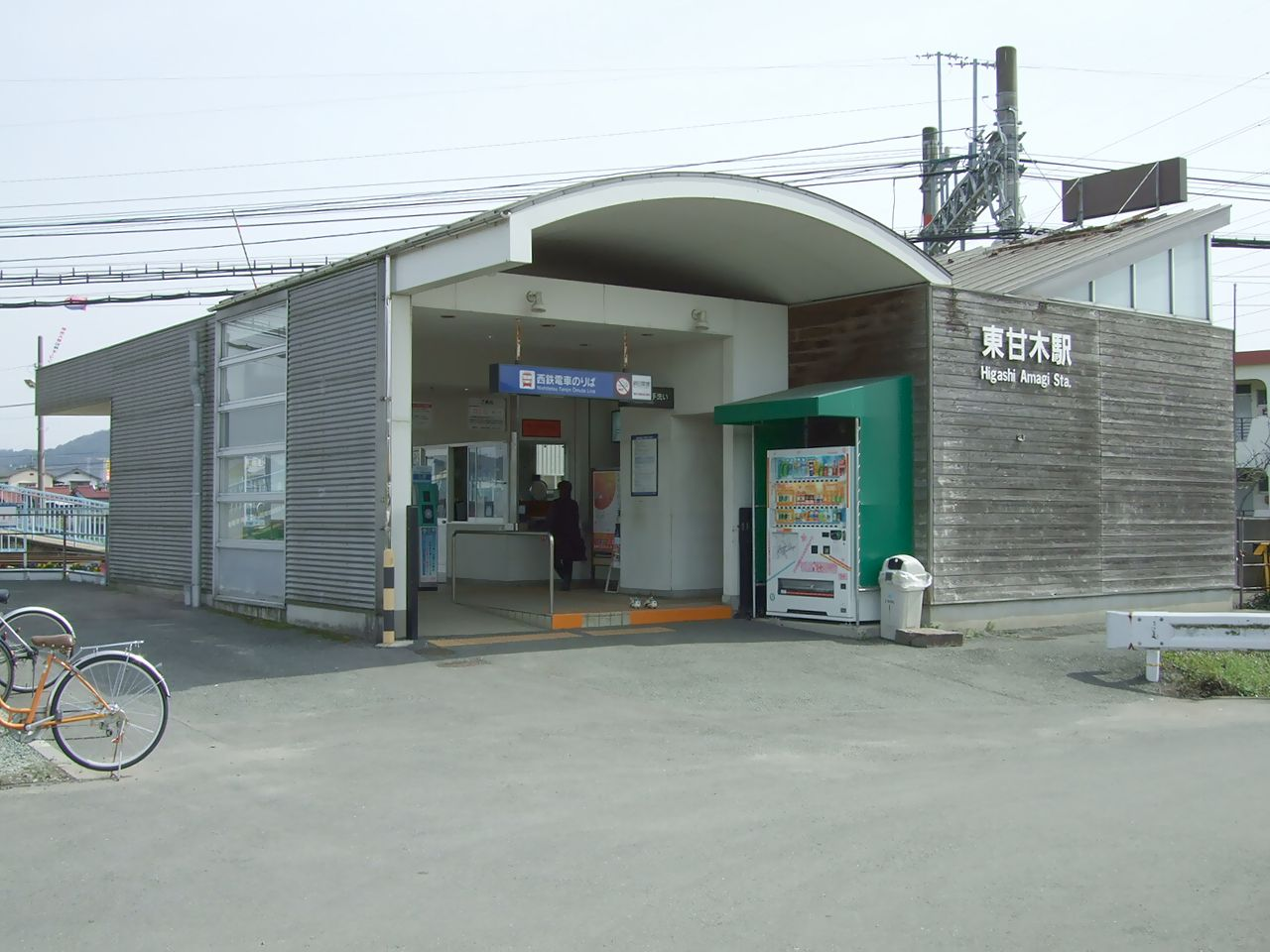 Higashi-Amagi Station on Nishitetsu Tenjin Omuta Line.